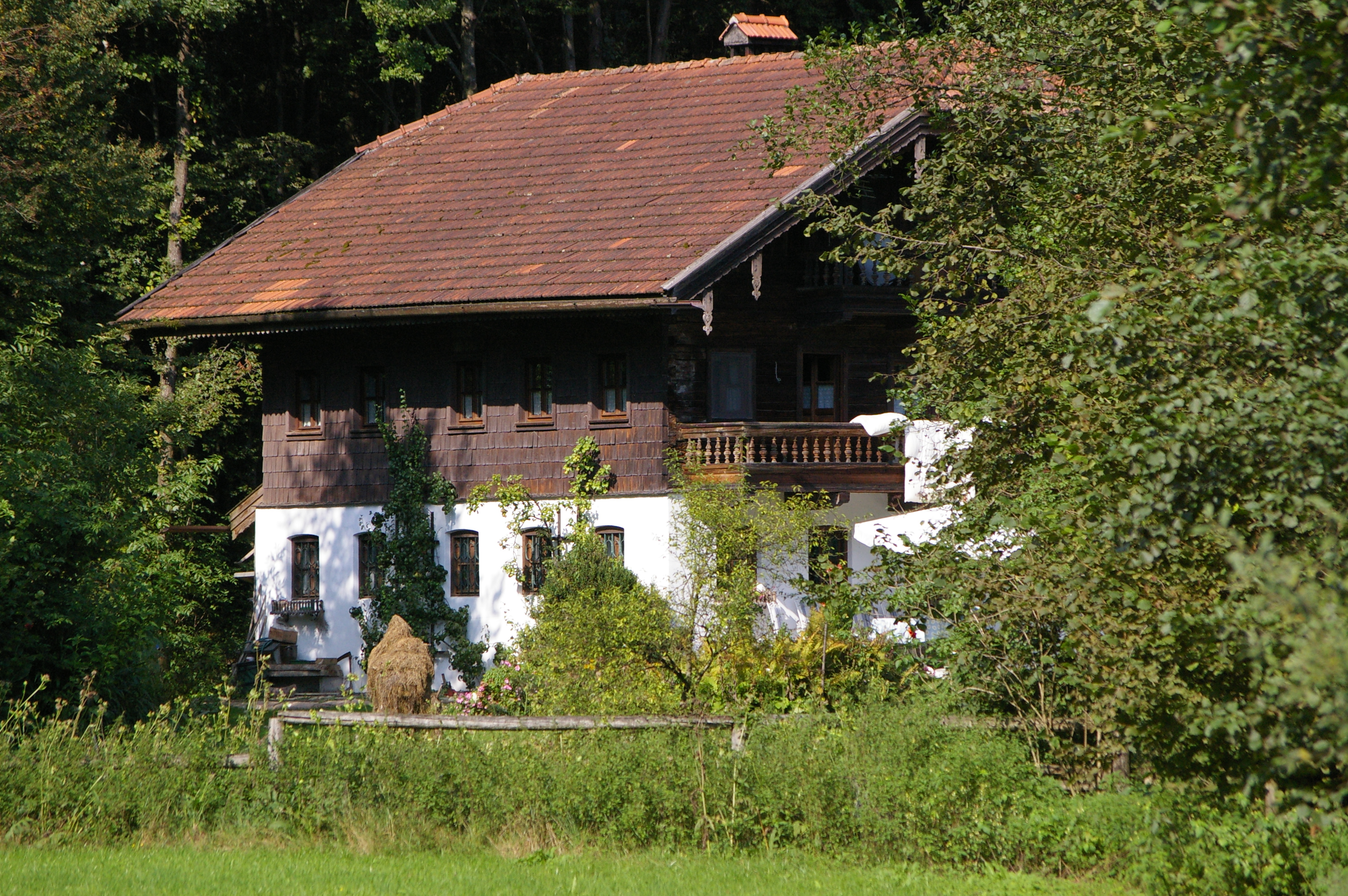 Farm house